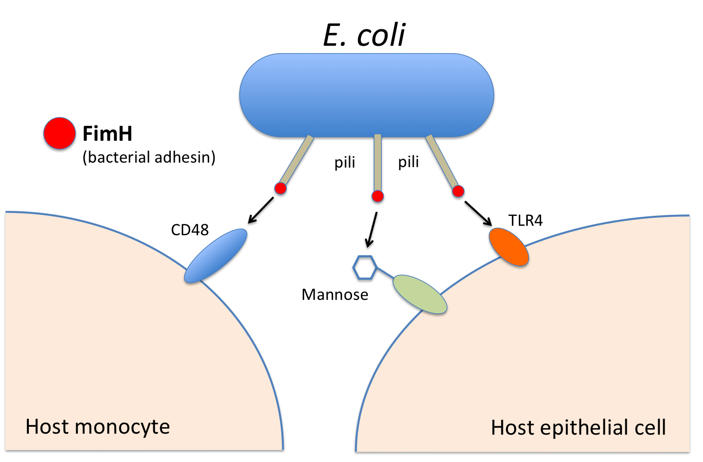 The Escherichia coli protein FimH is a bacterial adhesin that binds to host cell receptor proteins such as CD48, TLR4, or mannose residues.